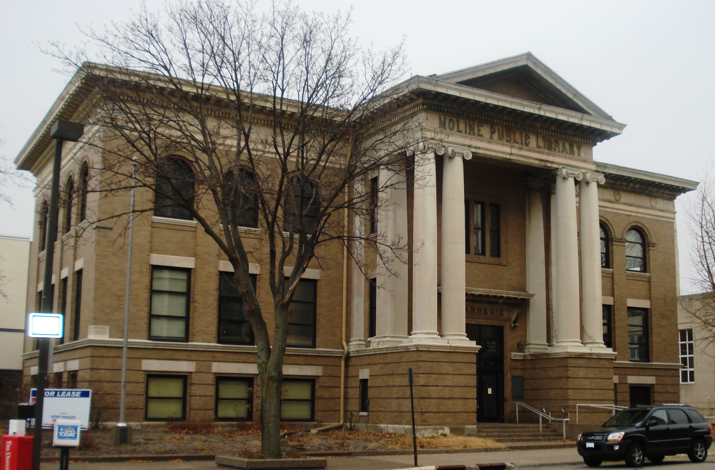 Moline’s Carnegie Library building is a typical neoclassical, Greek revival design, the most dominate style of public buildings of the early twentieth century. Four imposing columns with Ionic capitals frame the central, front entrance, which is dominated by a full-height porch whose roof is supported by the columns. Matching windows on both sides and the central door provide an overall symmetry to the building, which is made even more visually impressive by the projecting center gable roof.